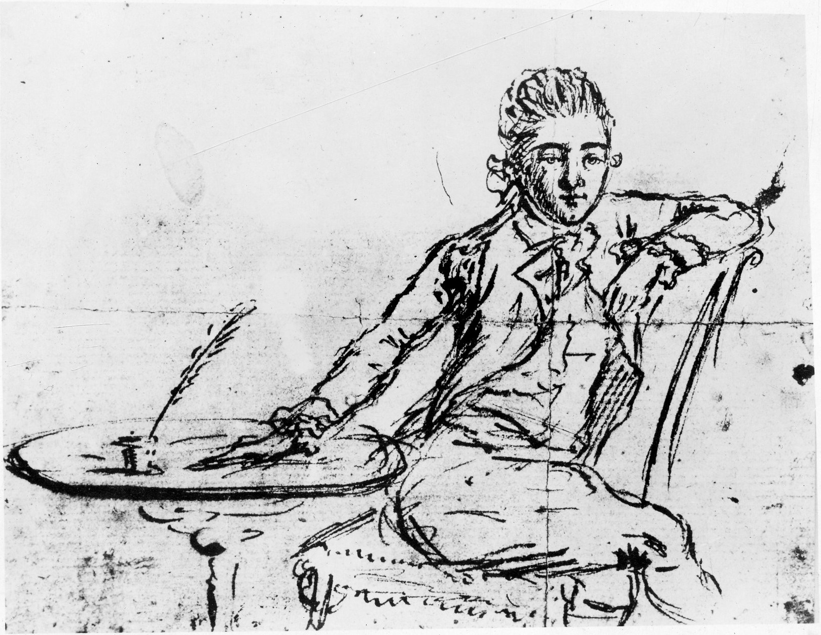 Self portrait of John André drawn on the eve of his execution. This is a scan of a photograph of the original. The original is 14.27 x 11.3 cm. From the Yale University Manuscripts & Archives collection, MS 0442, box 54, folder 726.[1]